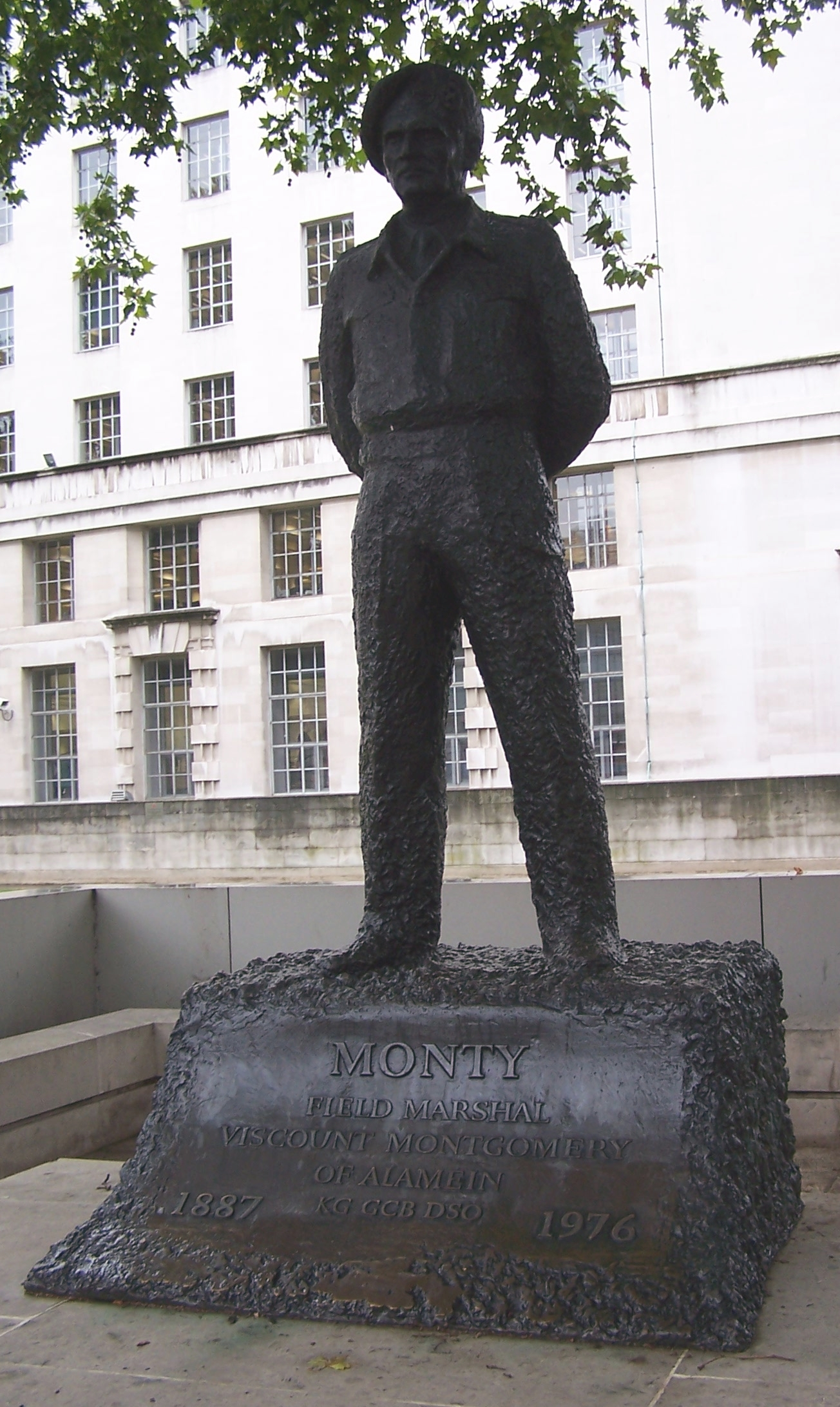 Bernard Montgomery, 1st Viscount Montgomery of Alamein situated in Whitehall, London. Sculptor was Oscar Nemon. Unveiled in 1980.